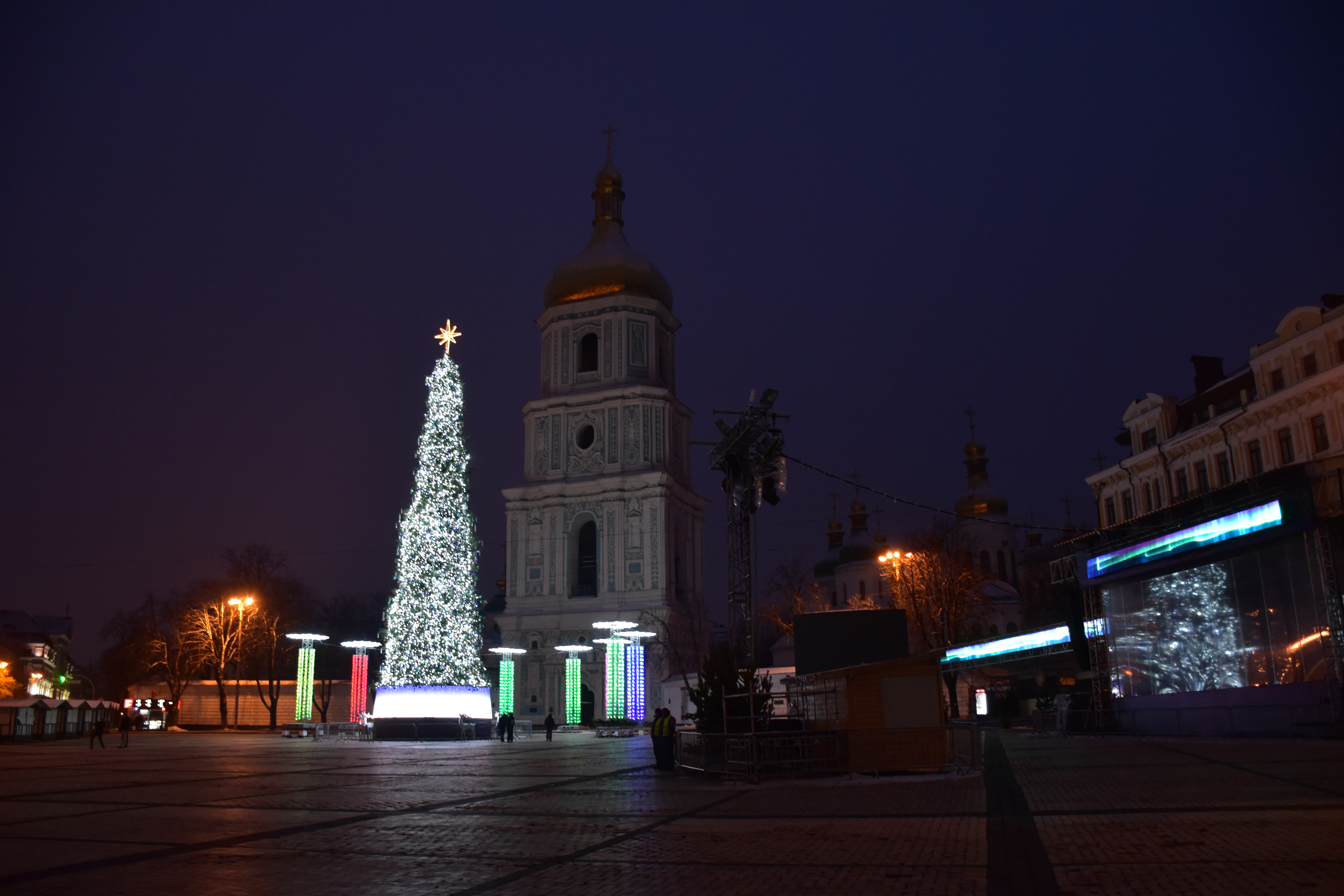 New Year tree at Sofiiska Square in Kiev.